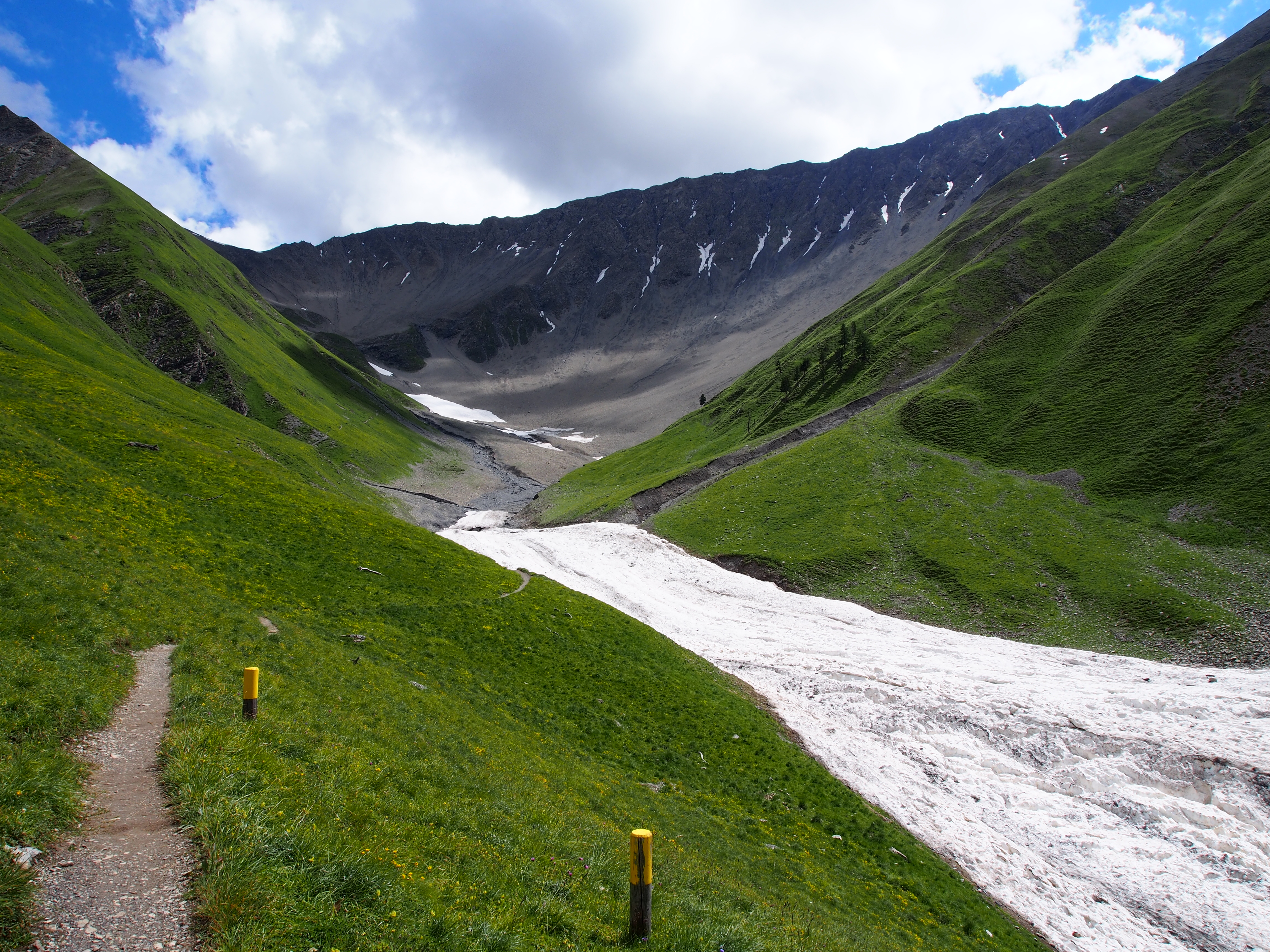 Parc Naziunal Svizzer